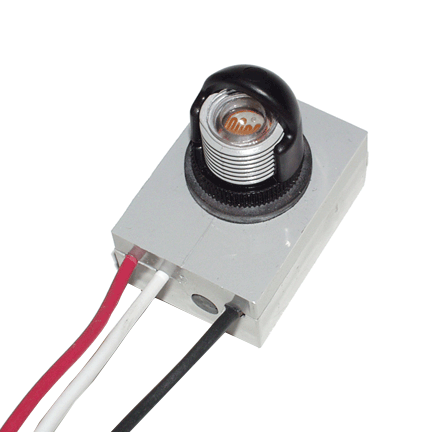 photocell